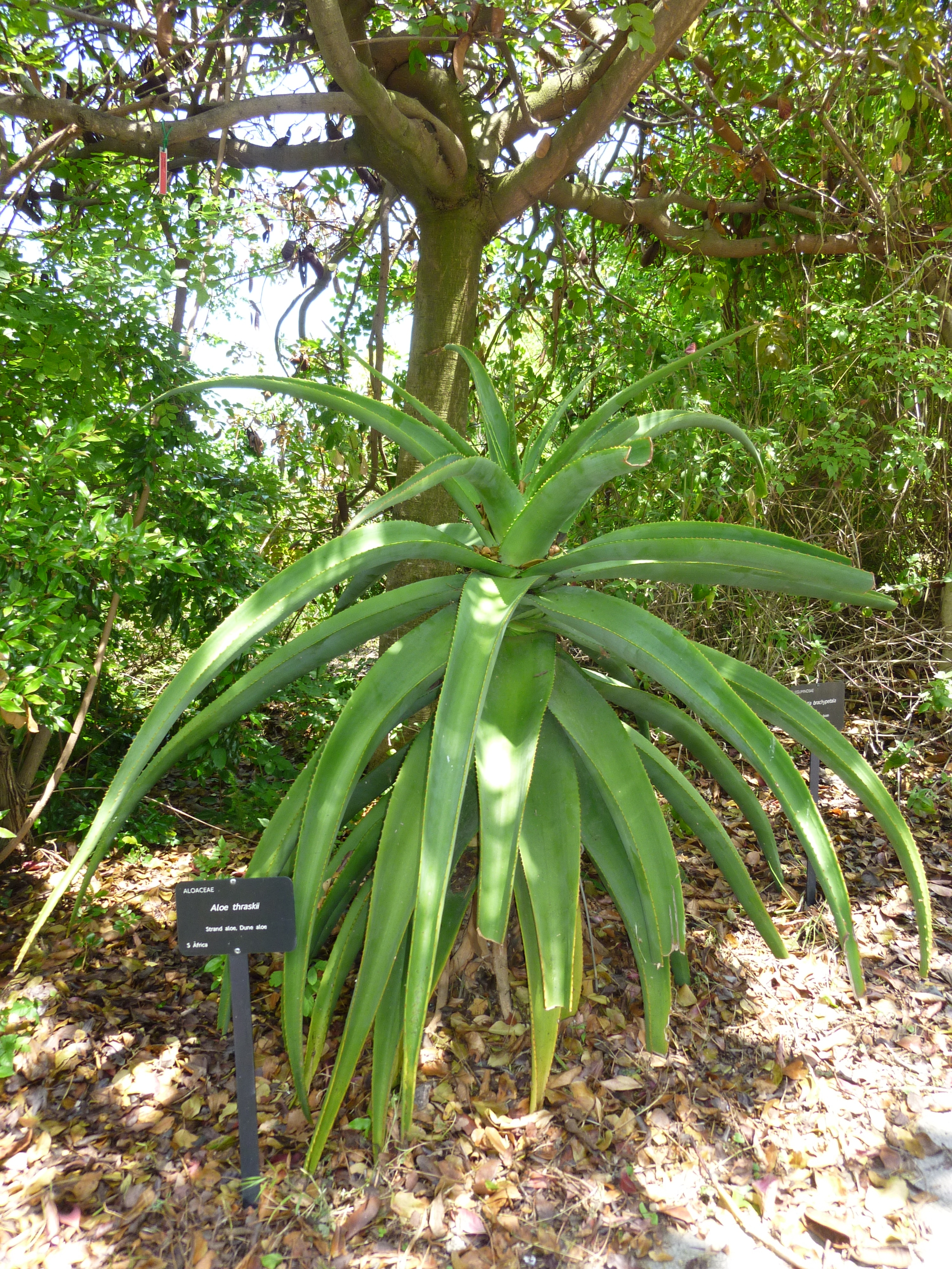 Aloe thraskii at the botanical garden of Barcelona